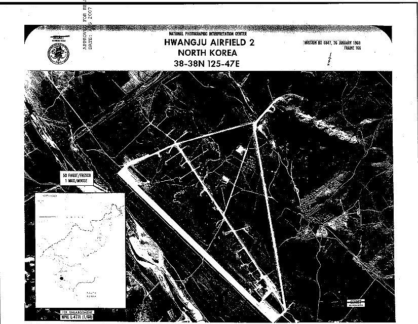 CIA FOIA document on the A-12 OXCART Reconnaissance Aircraft Documentation page. Shows the Hwangju Airfield in North Korea. (rotated and sharpened using GIMP).